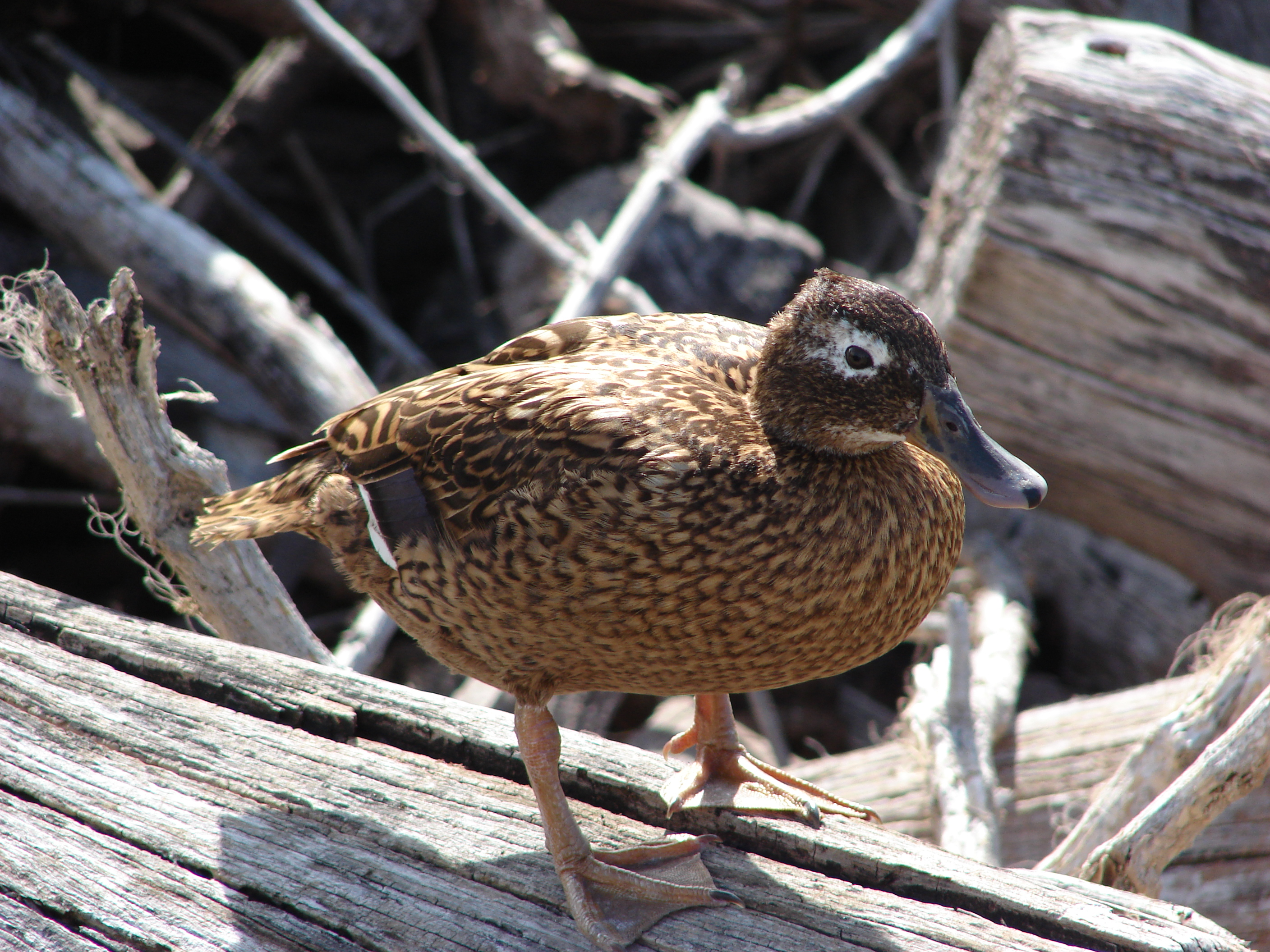 Casuarina equisetifolia (downed log with Laysan duck). Location: Midway Atoll, Eastern Island